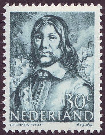 Admiral Cornelis Tromp on a stamp from 1944.